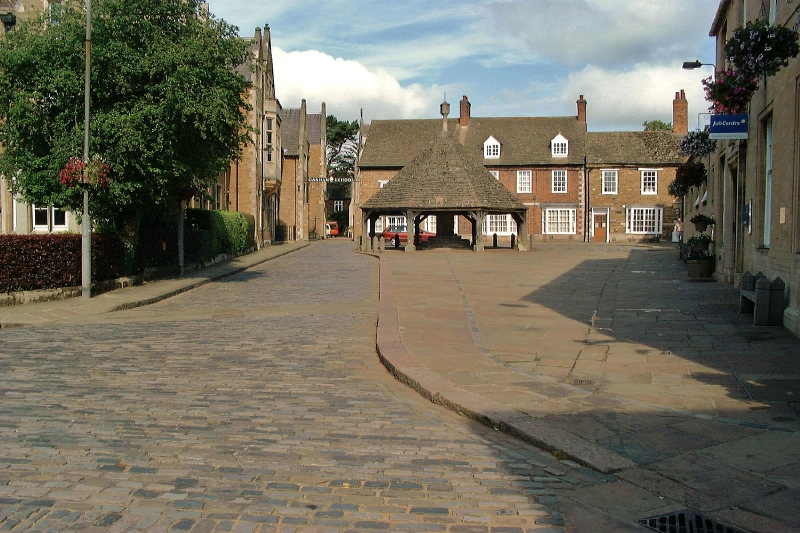 Oakham School: Entrance Taken from Market Place